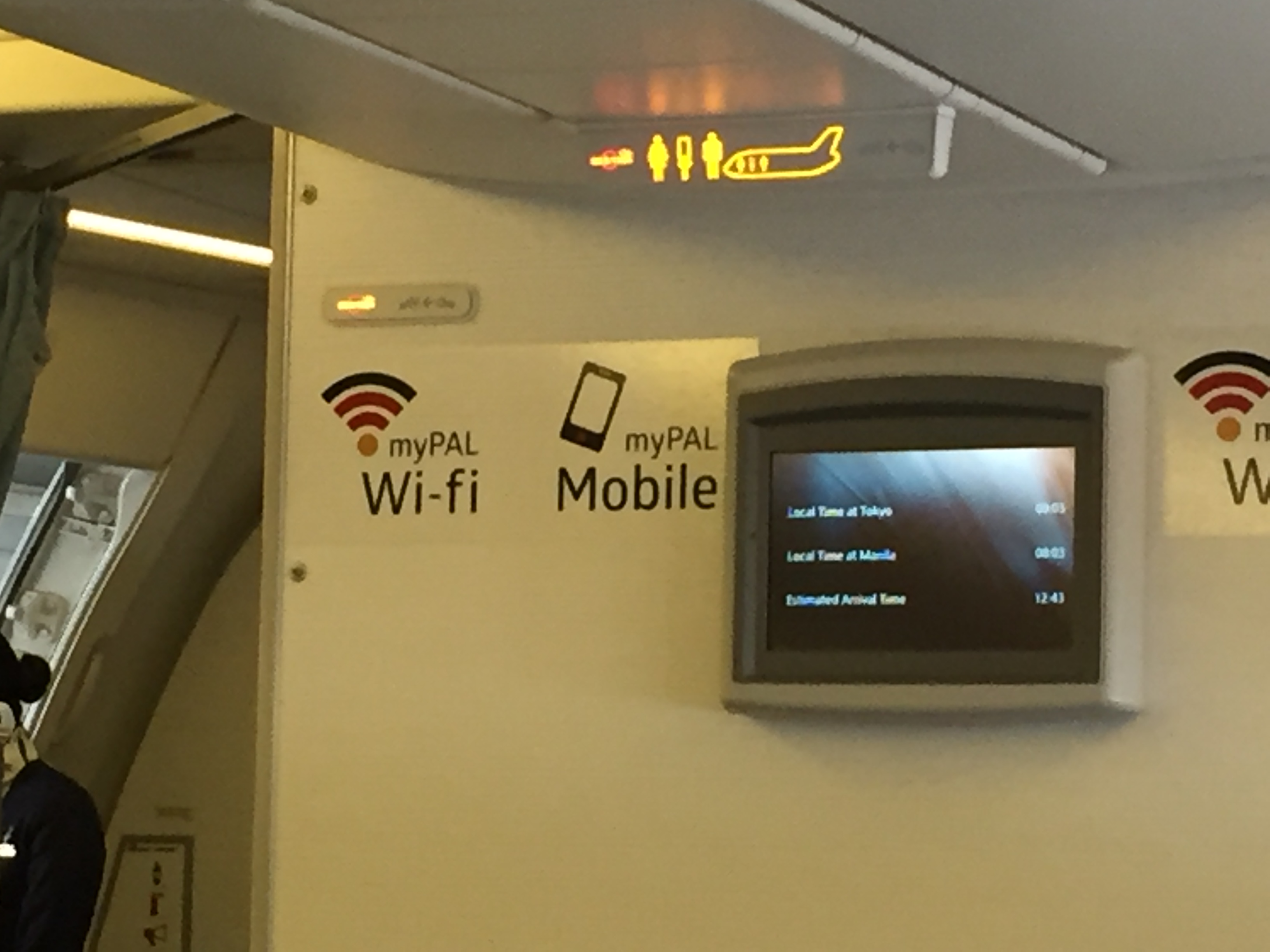 Signage for myPAL wi-fi and mobile phone services.